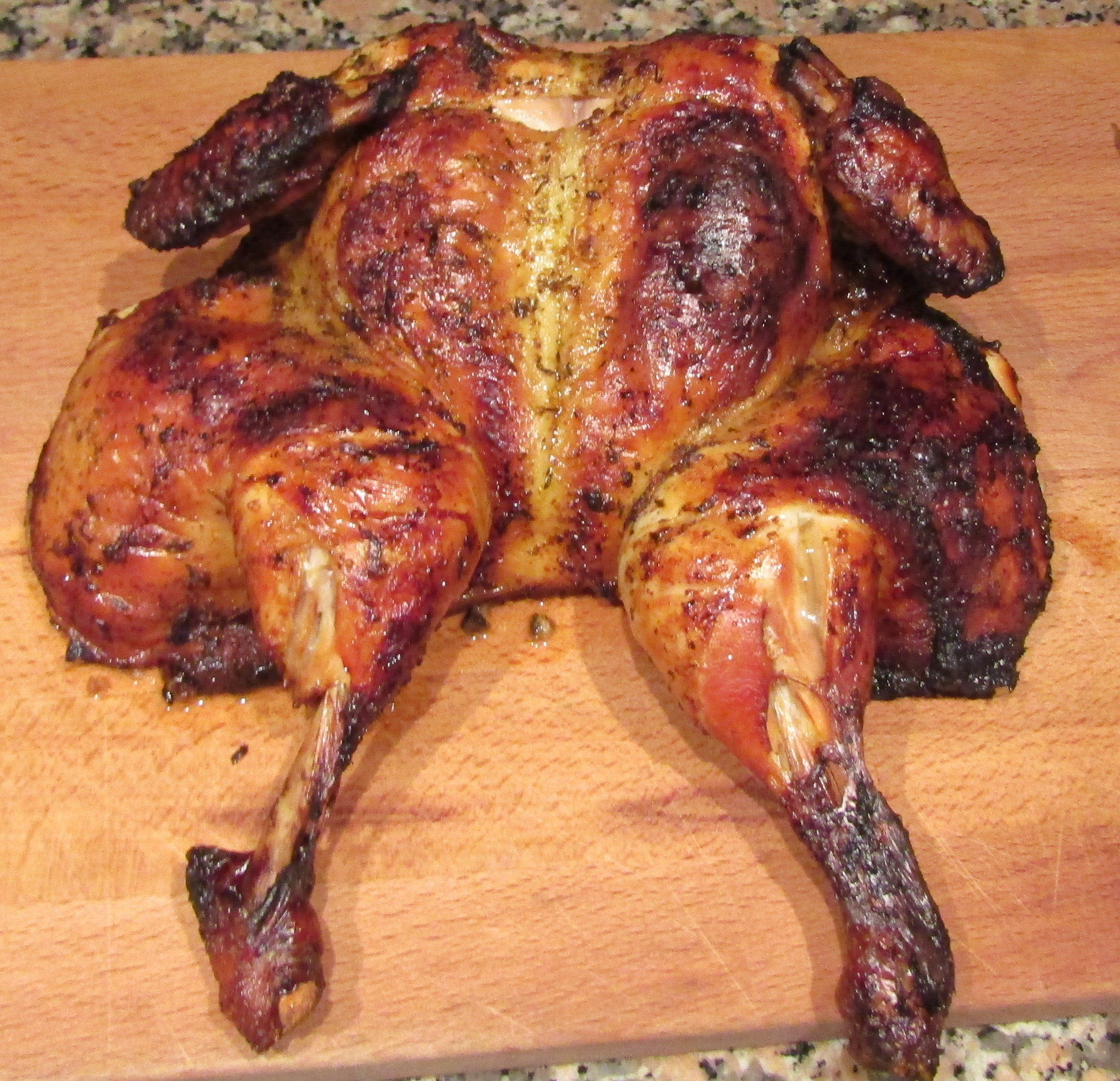 Chicken Piri piri (Frango Piri piri) is a Portuguese dish of barbecue chicken in which Piri piri peppers are sometimes used to flavour the bird usually in the form of a marinate. In Portugal, Frango Piri -piri churrasco is a common grilled chicken dish that is prepared at many churrascarias in the country. Portuguese churrasco and chicken dishes are very popular in countries with Portuguese communities, such as Canada, Australia, the United States, United Kingdom, Venezuela and South Africa.